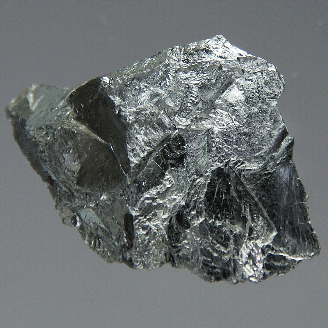 Piece of chromium metal.